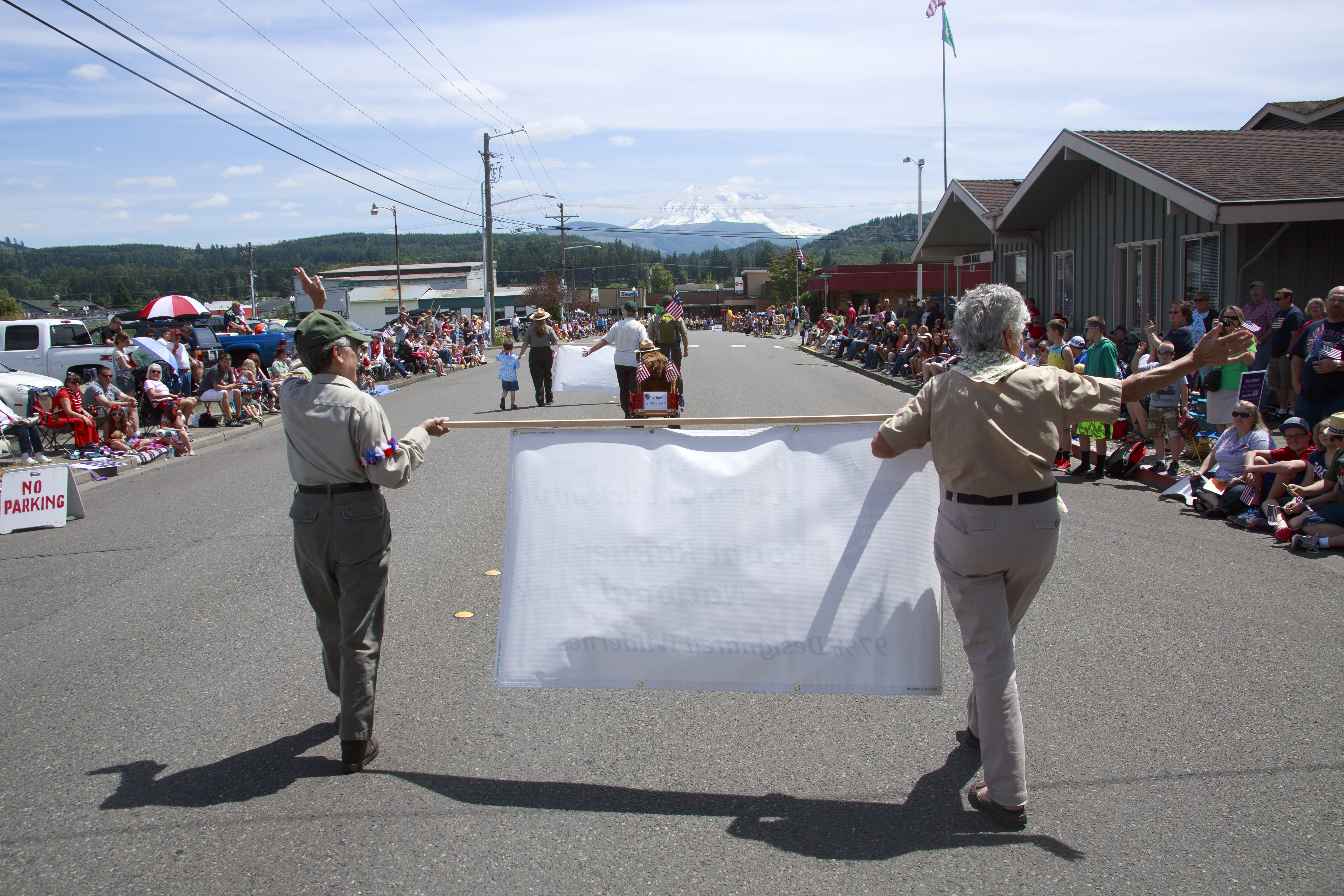 Staff and volunteer represent Mount Rainier National Park in the Eatonville, Washington, 4th of July Parade. Mount Rainier in background. NPS Photo by Kevin Bacher.